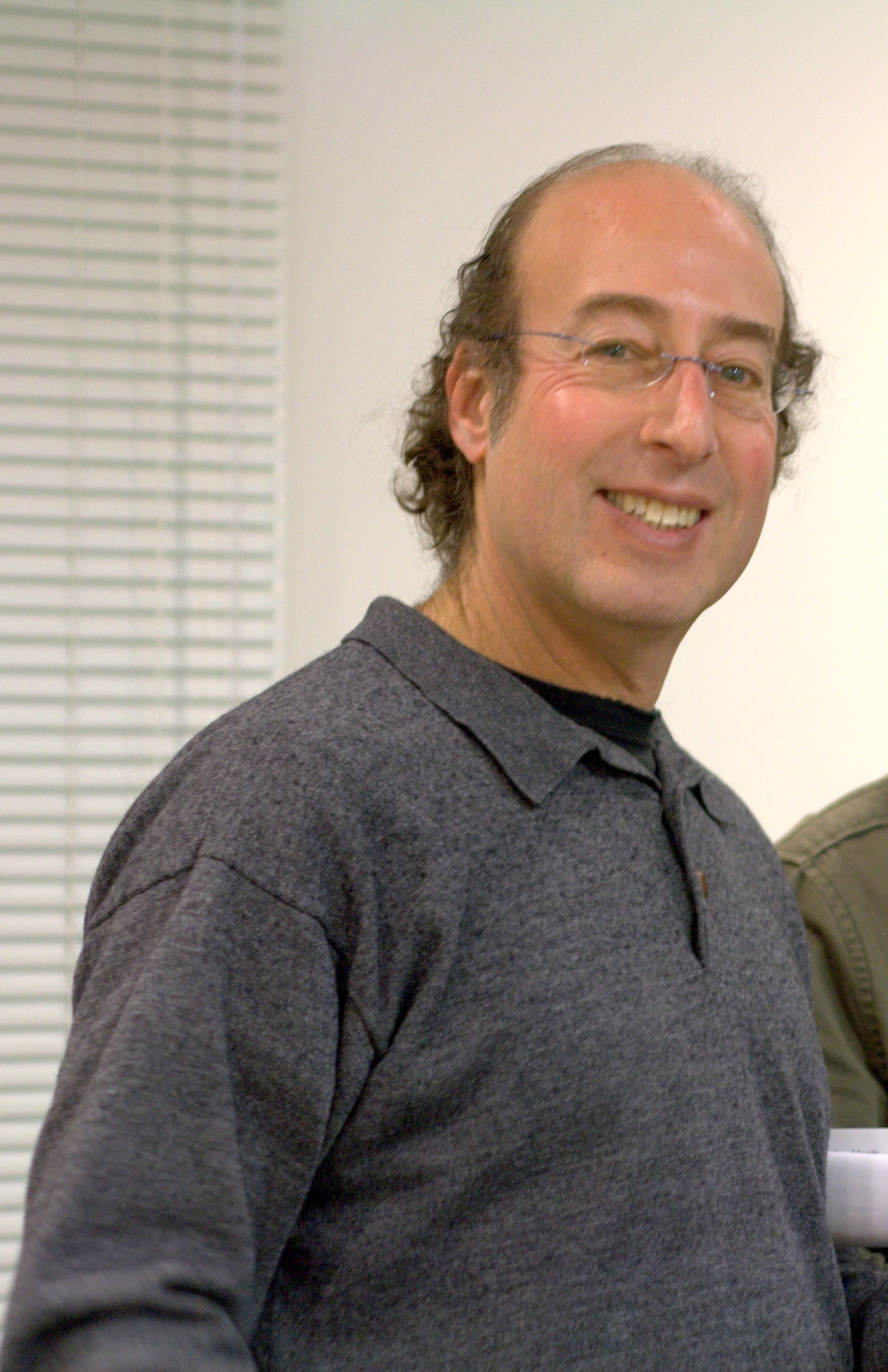 Kenneth S. Kosik December 2013 lab meeting